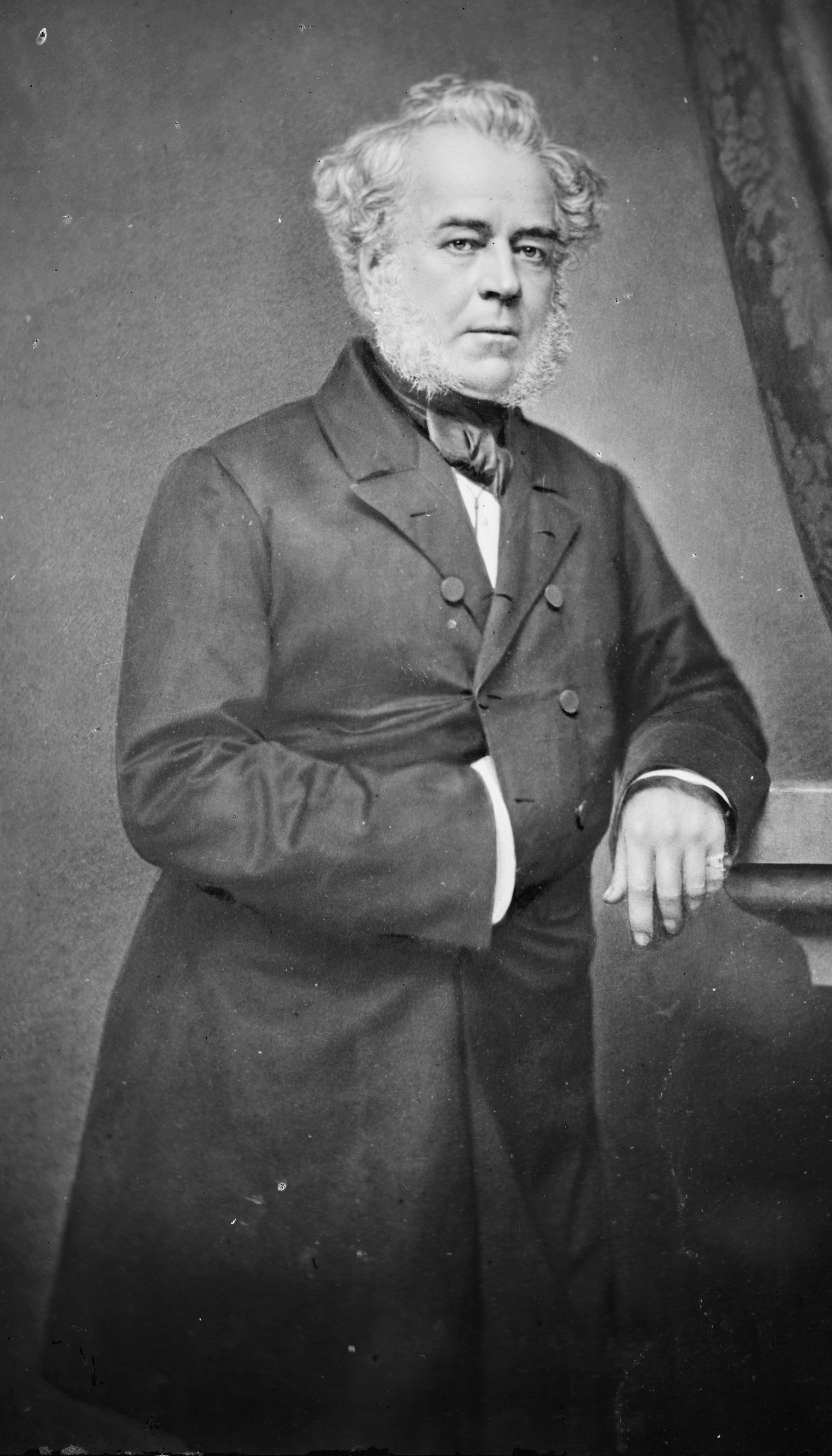 James Watson Webb. Library of Congress description: "James Watson Webb".